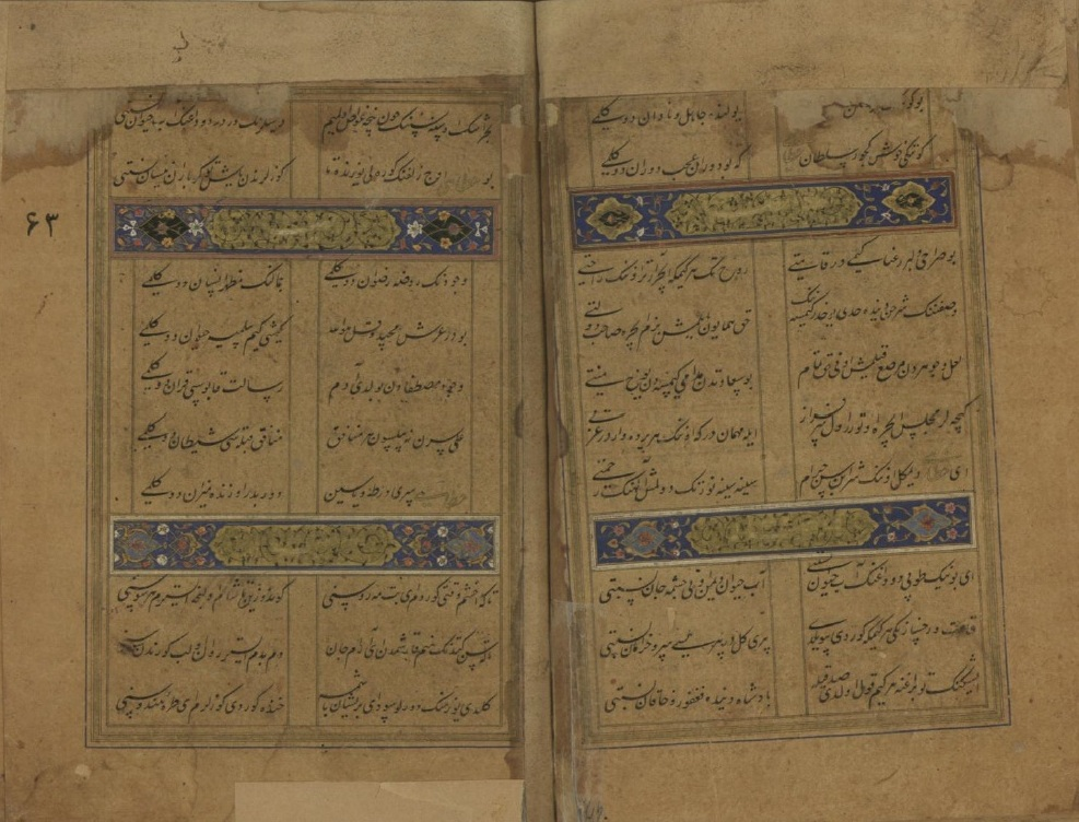 Old manuscript from diwan of Azerbaijani poet Shah Ismail Khatai, founded in Iran's Library of The Parliament